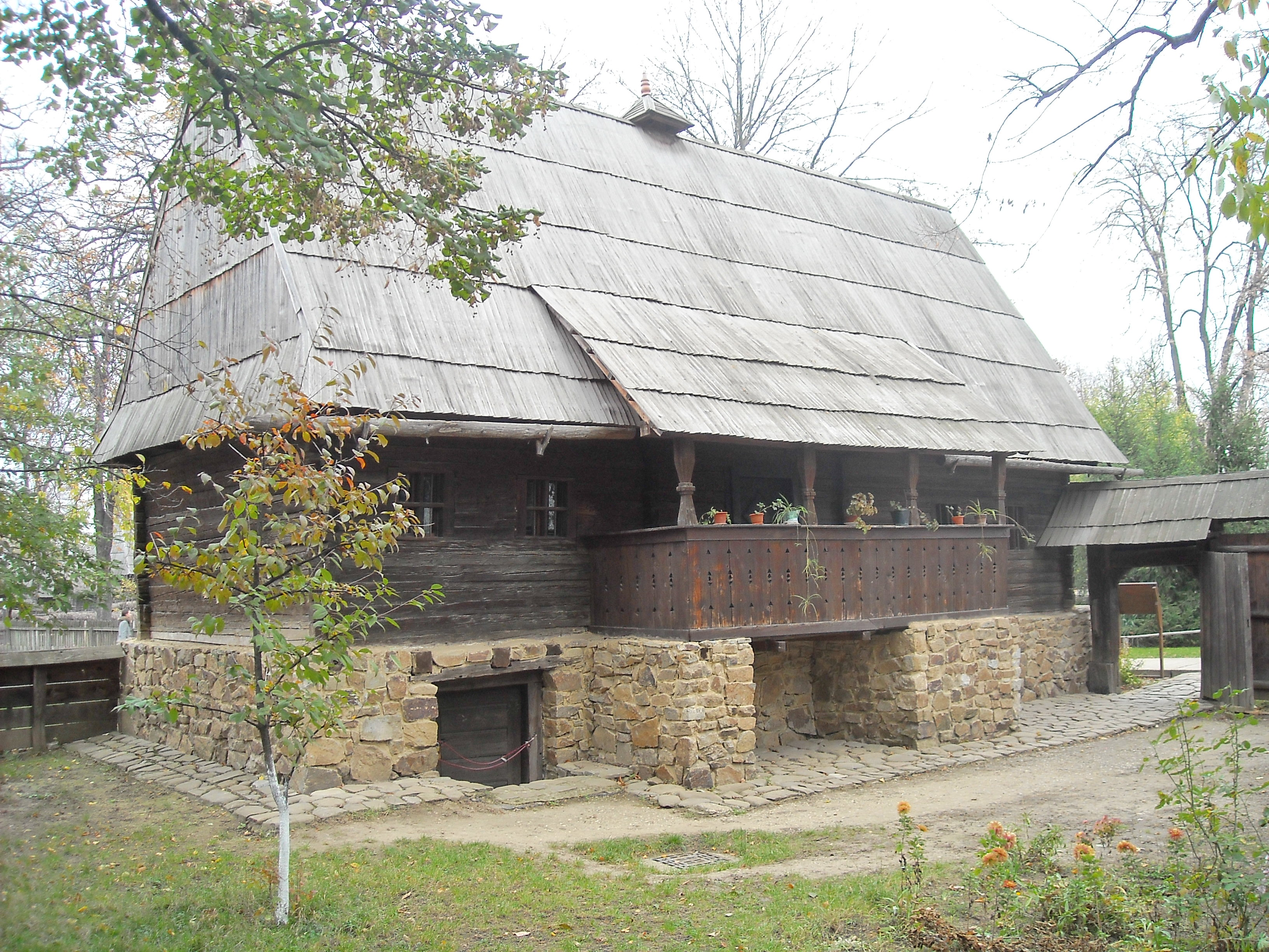 peasant house, originally built in Tilișca, in 1847, now in Village Museum, Bucharest